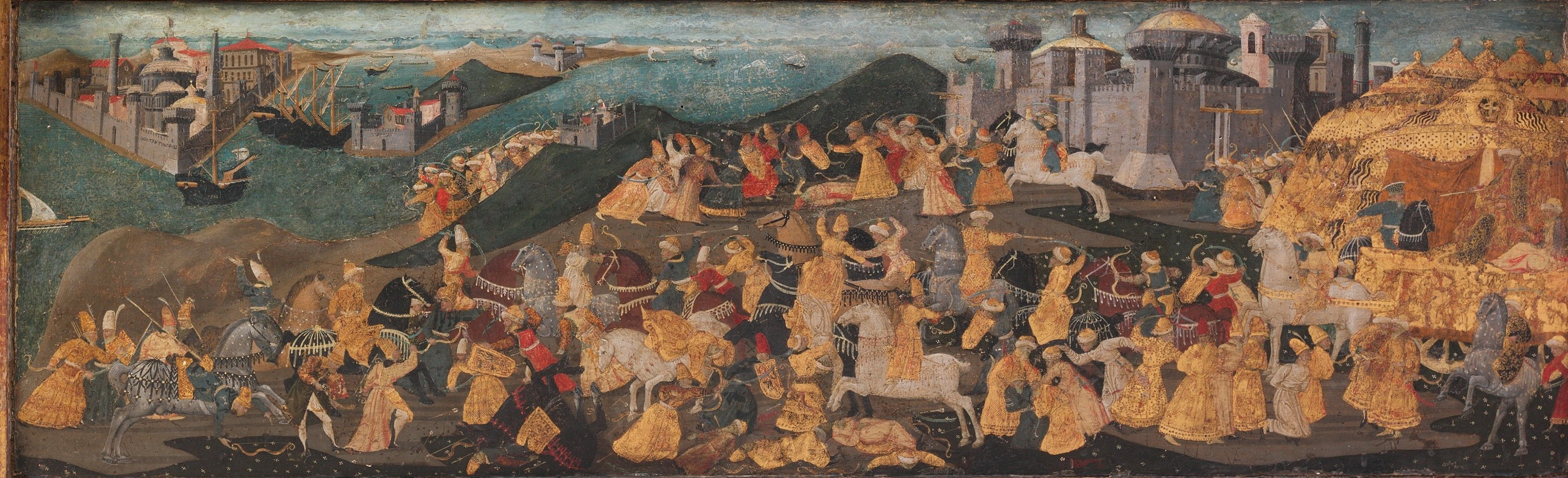 Italian, Florence; Cassone; Woodwork-Furniture